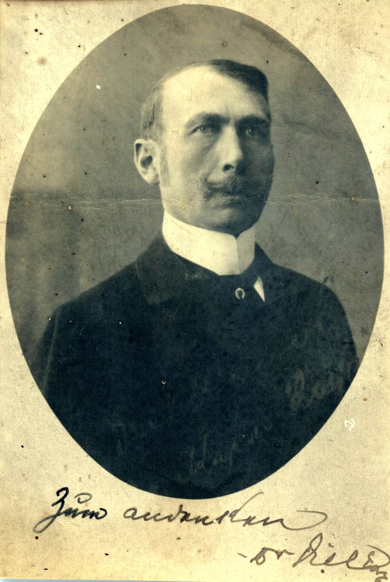 German surgeon from Romania